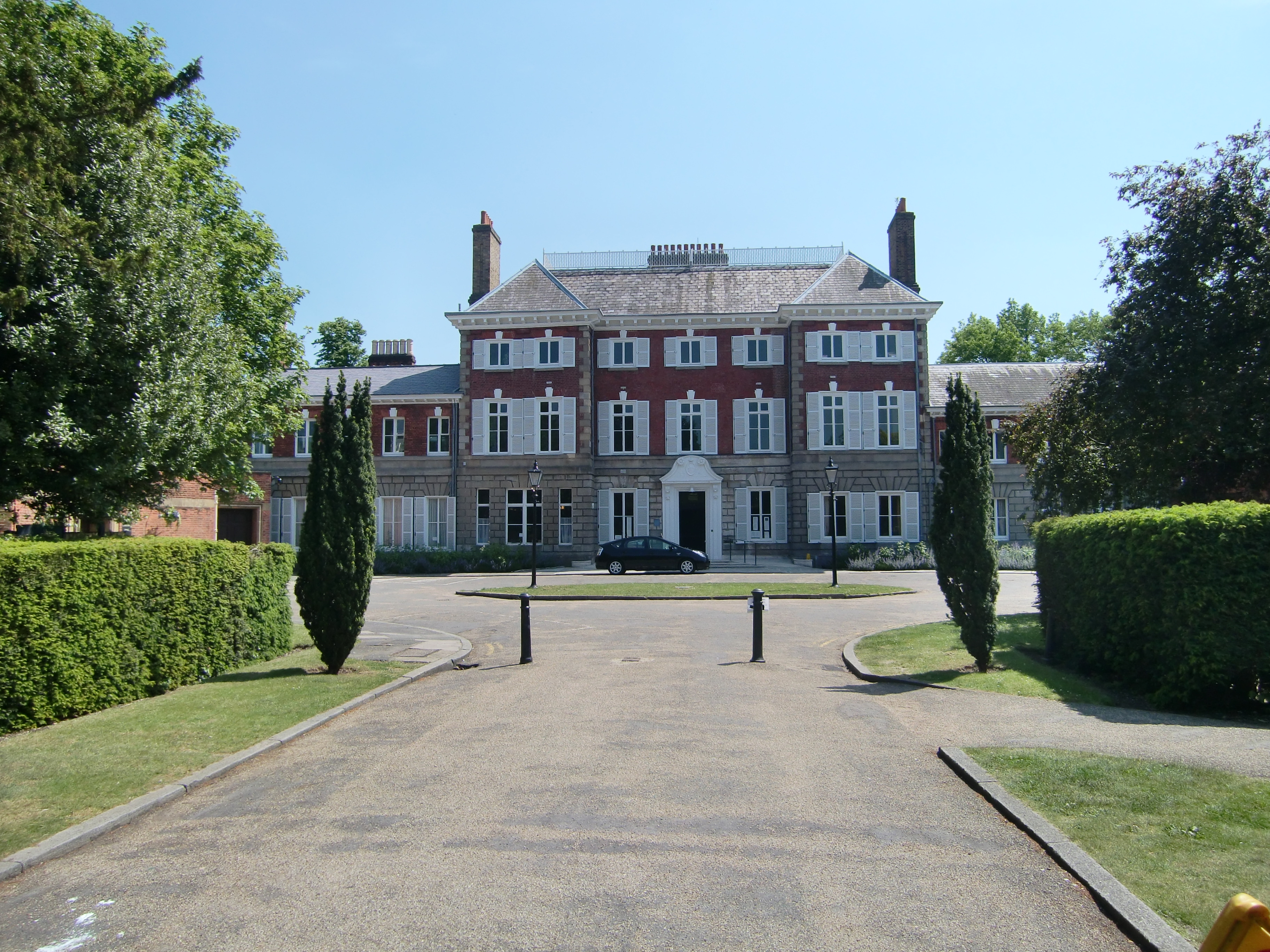 York House Twickenham - Frontal view with Mayor's Prius